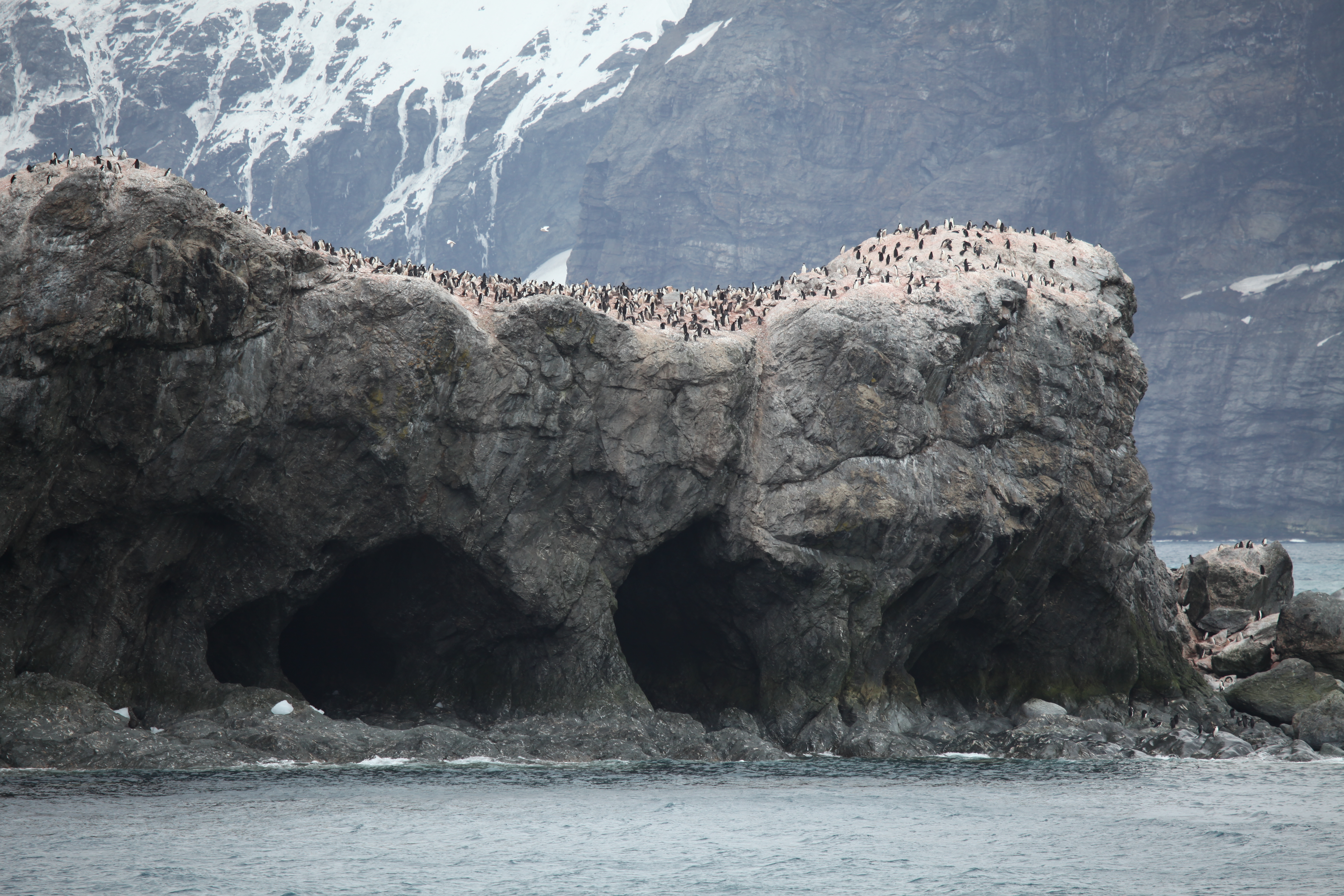 In the South Shetland Islands, Antarctica.